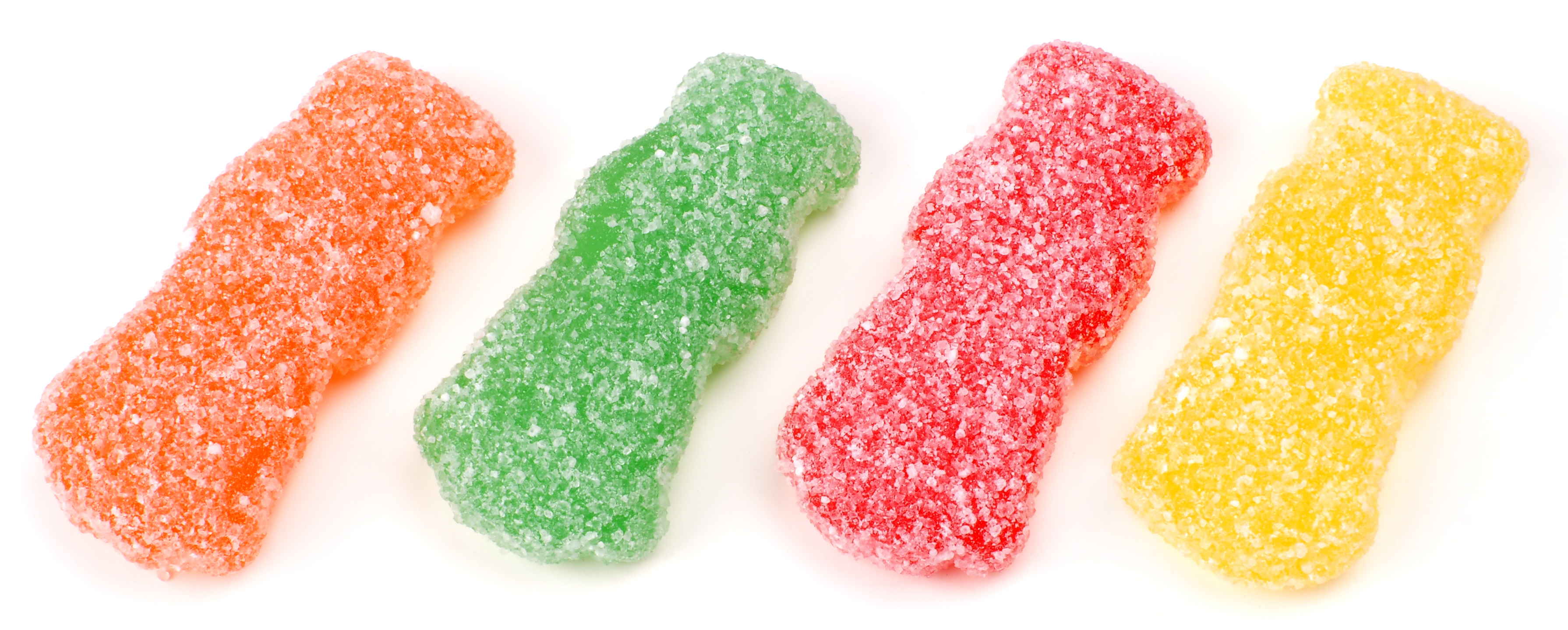 Sour Patch Kids candies. Please check my Wikimedia User Gallery for all of my public domain works.